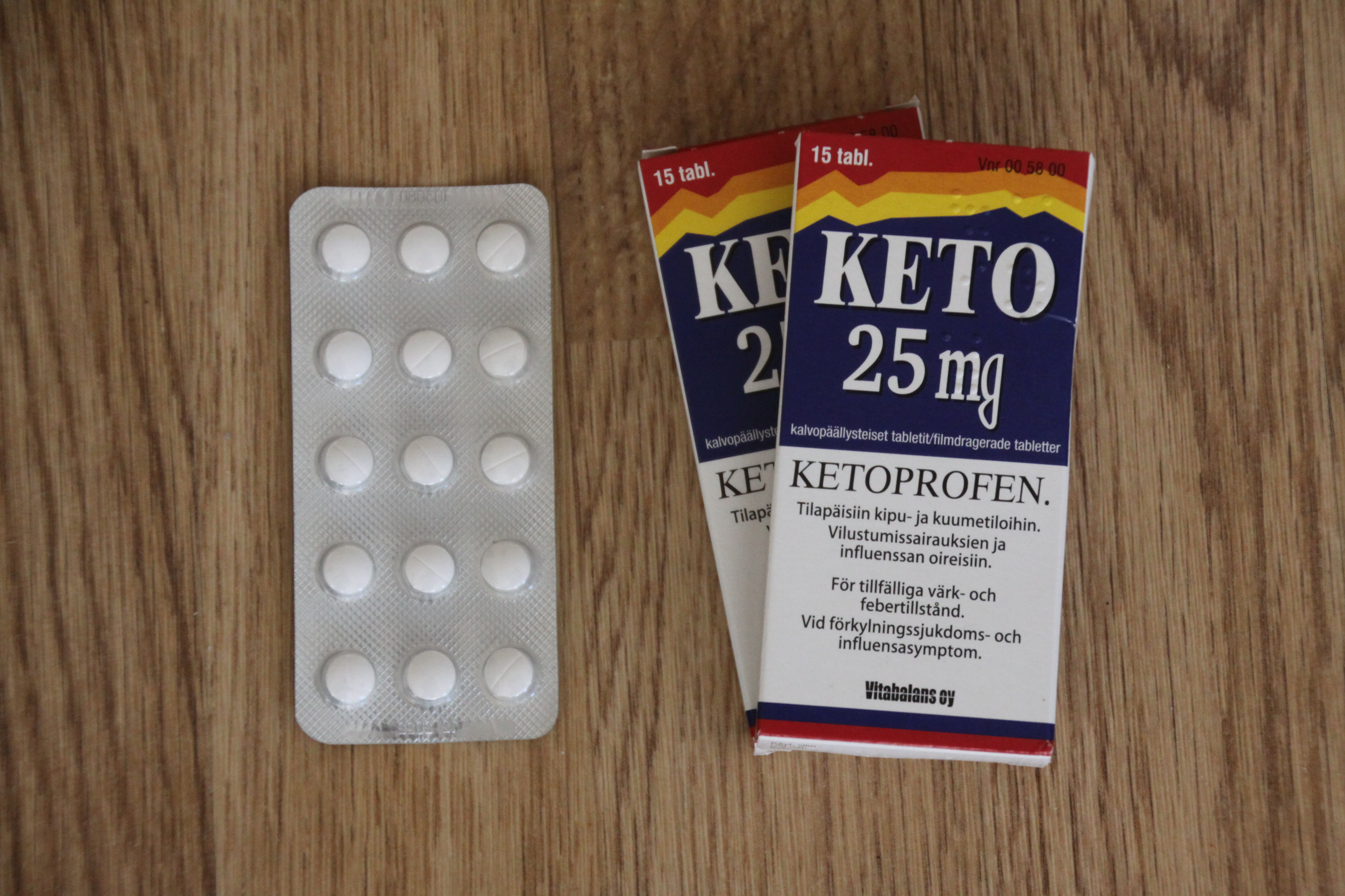 Finnish ketoprofen 25mg tablets.